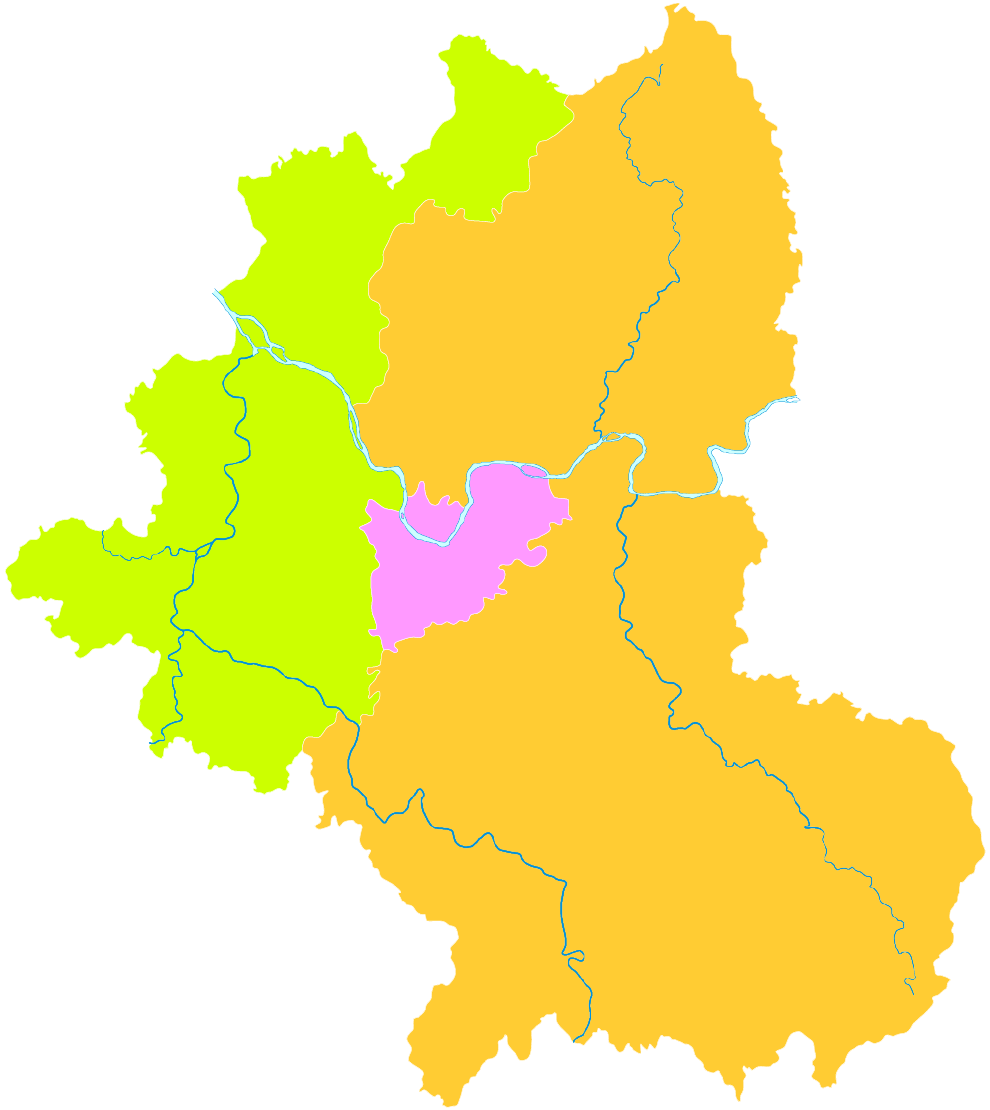 administrative divisions of Yingtan City, Jiangxi, China